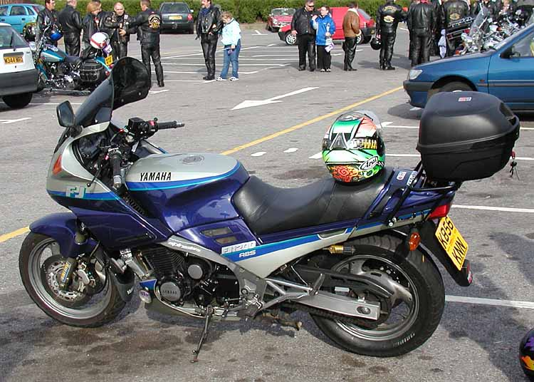 Yamaha FJ1200 motorcycle, seen at Aust Motorway Services, Bristol, England.